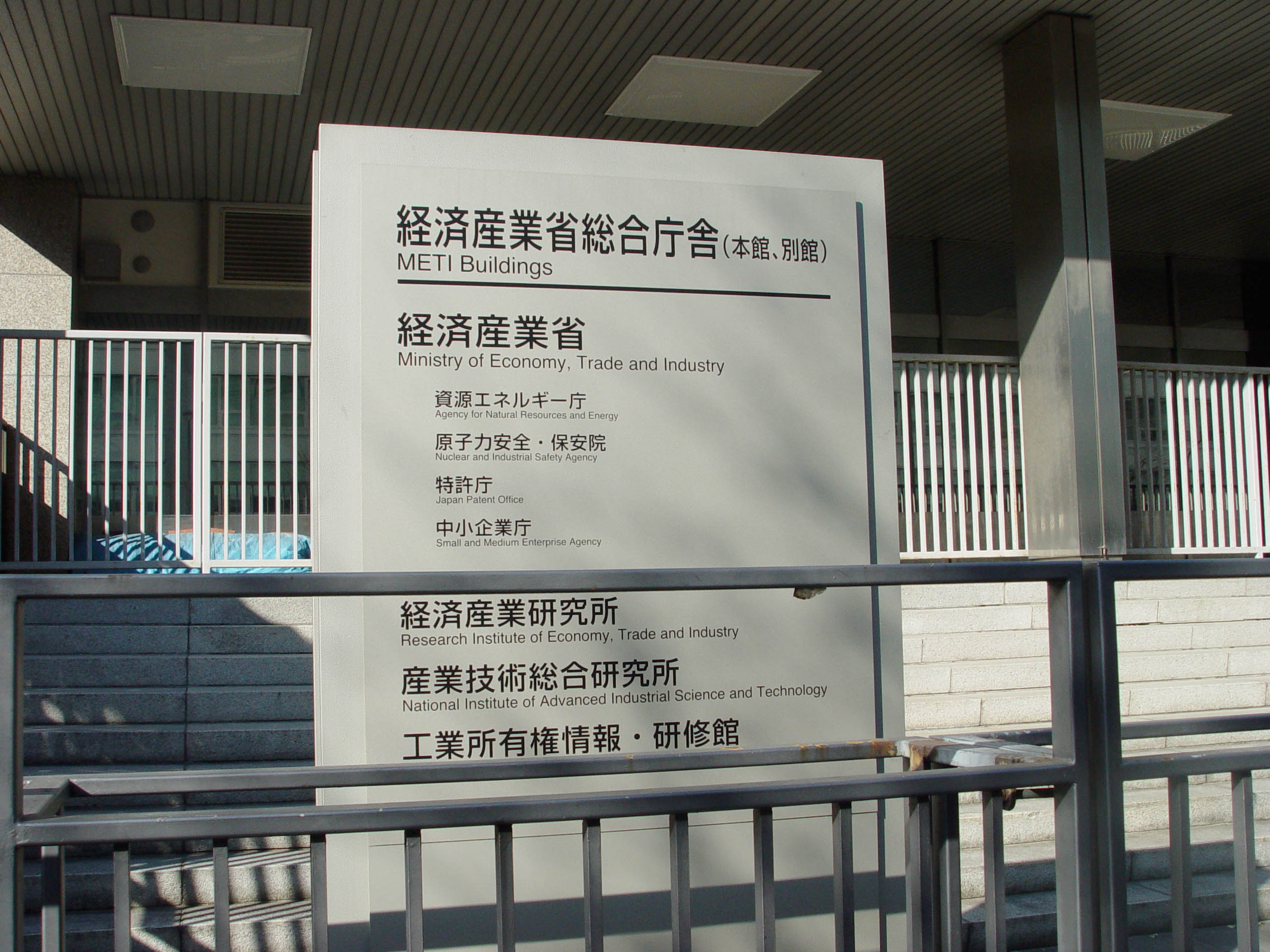 Public office building of Japan: The Ministry of Economy, Trade and Industry Agency of Natural Resources and Energy Safe nuclear power and security academy Patent Office Small and Medium Enterprise Agency Economic industrial laboratory National Institute of Advanced Industrial Science and Technology Industrial property information and training pavilion 庁舎： 経済産業省 資源エネルギー庁 原子力安全・保安院 特許庁 中小企業庁 経済産業研究所 産業技術総合研究所 工業所有権情報・研修館